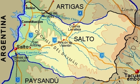 General map of Salto Department, Uruguay.